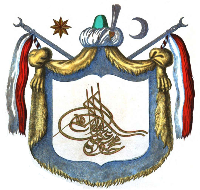 Ottoman Empire